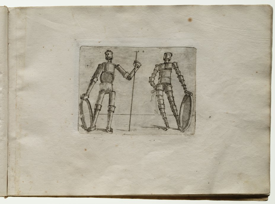 Engrave from Bizzarie di Varie Figure by Giovanni Battista Bracelli